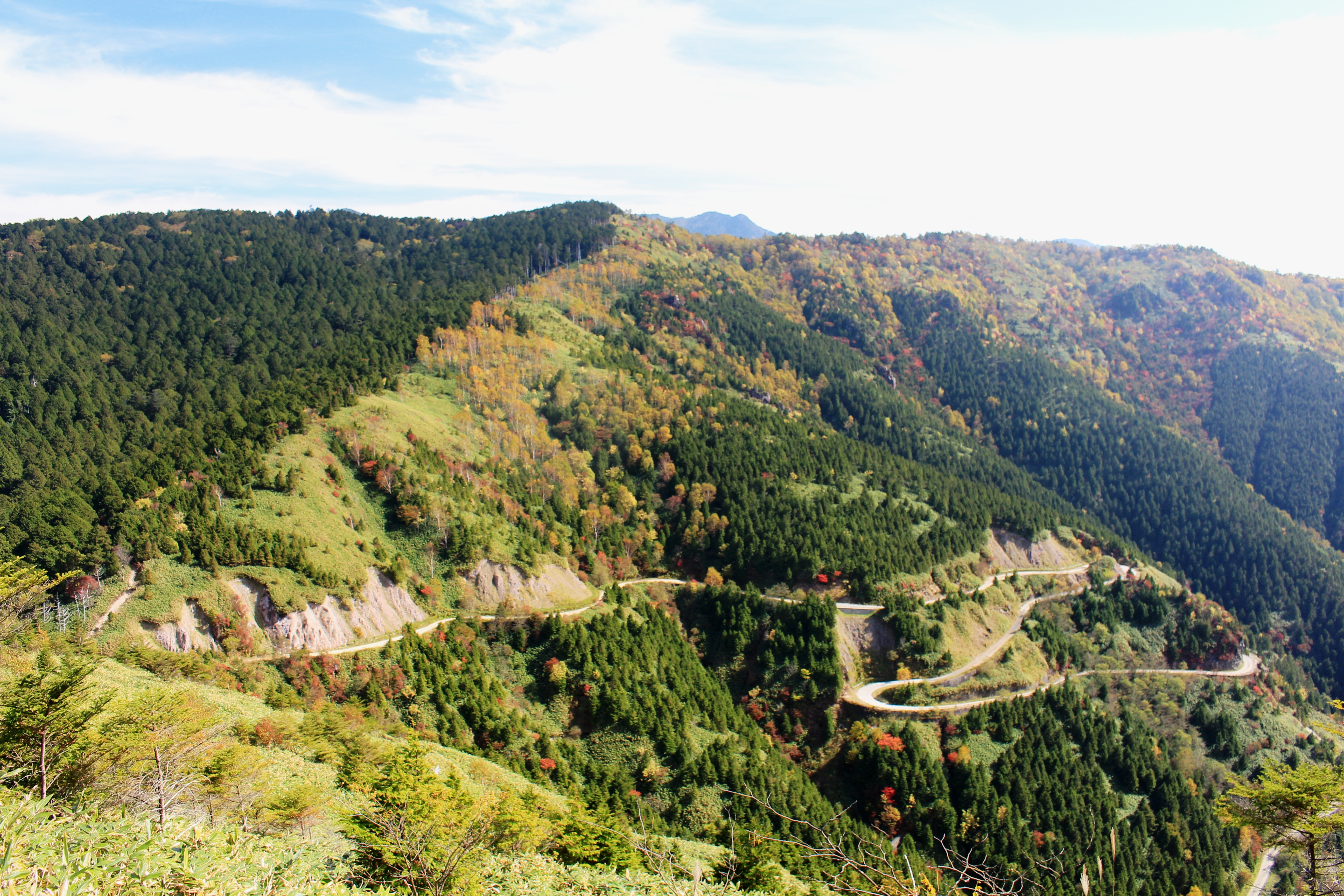 Mount Mikuni (Mikuni-yama) seen from Mount Shirakusa in Ōtaki, Nagano prefecture and Nakatsugawa Gifu prefecture, Japan.